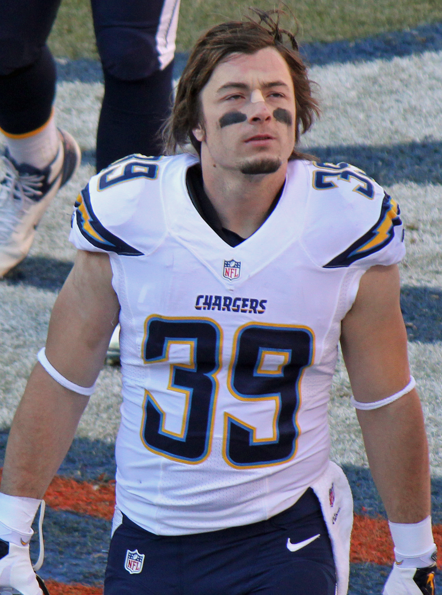 Danny Woodhead, a player on the National Football League.